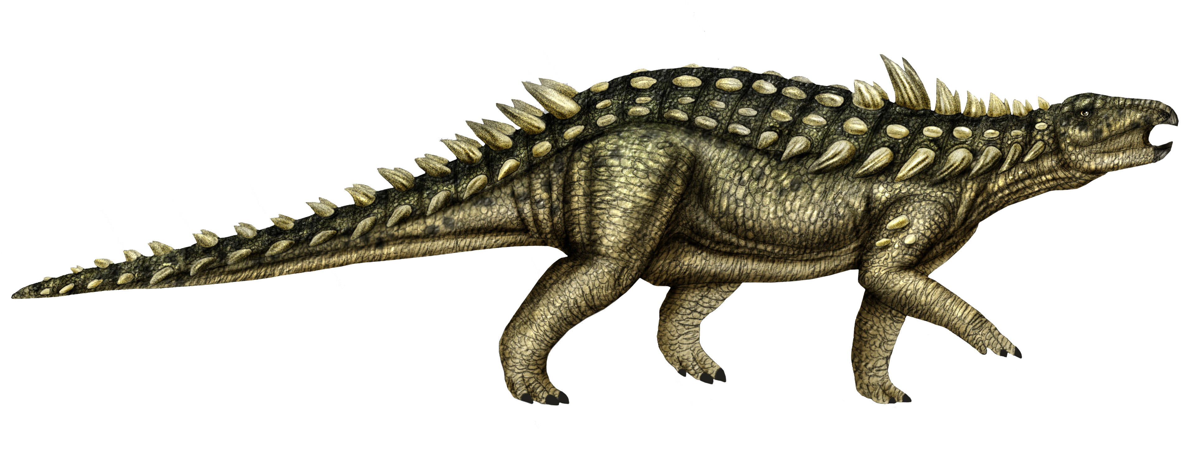 Acanthopholis